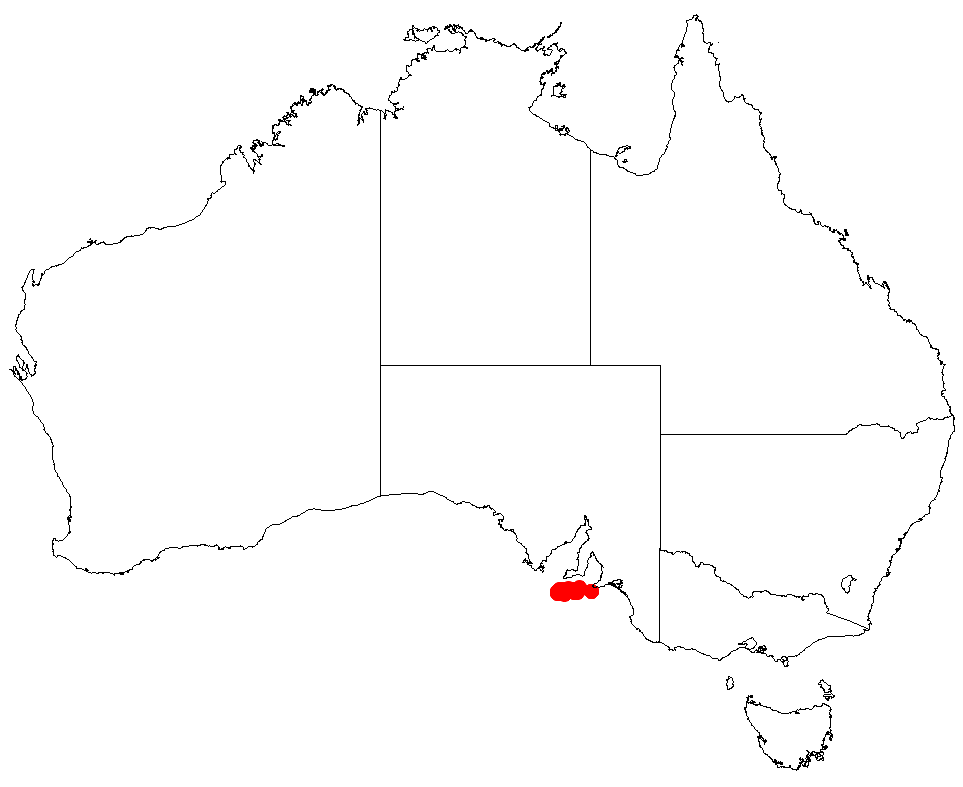 Acrotriche halmaturina Occurrence data from Australasian Virtual Herbarium downloaded 23 November 2018 using